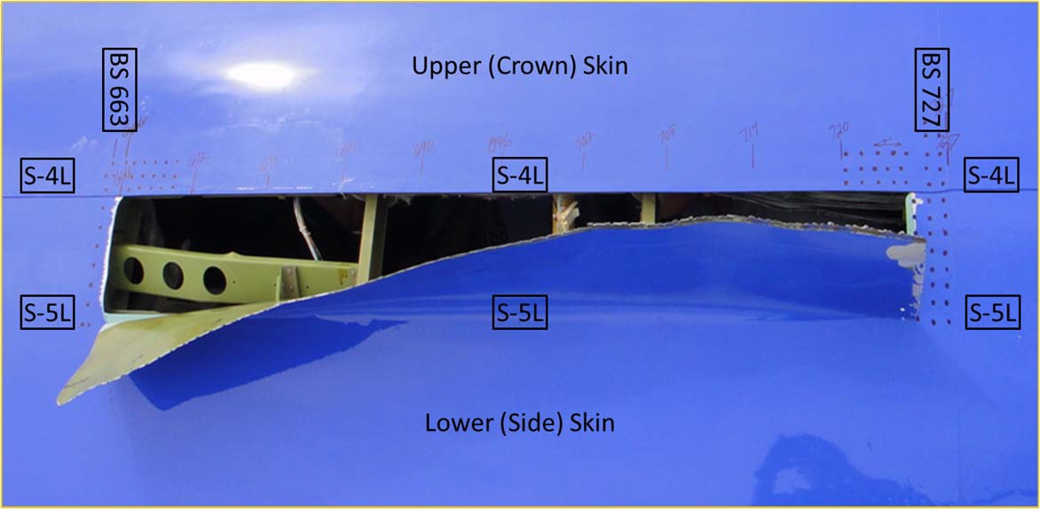 Metal fatigue at a fuselage joint of the Boeing 737 operating Southwest Airlines Flight 812 caused a rapid decompression of the passenger cabin and an approximately 60-inch-long hole in the aircraft's fuselage skin.